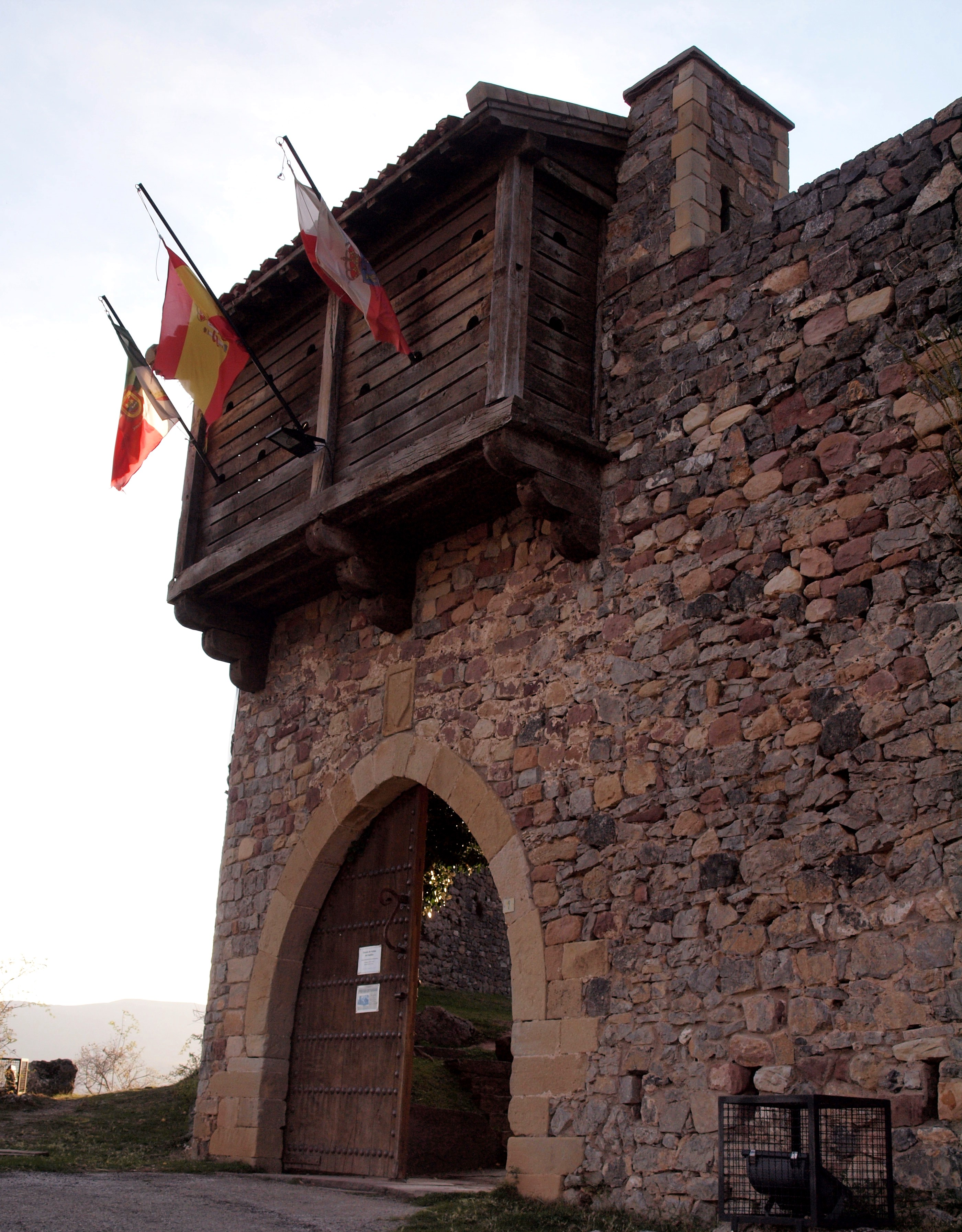 Hoarding in the Castle of Argüeso (Cantabria, Spain)